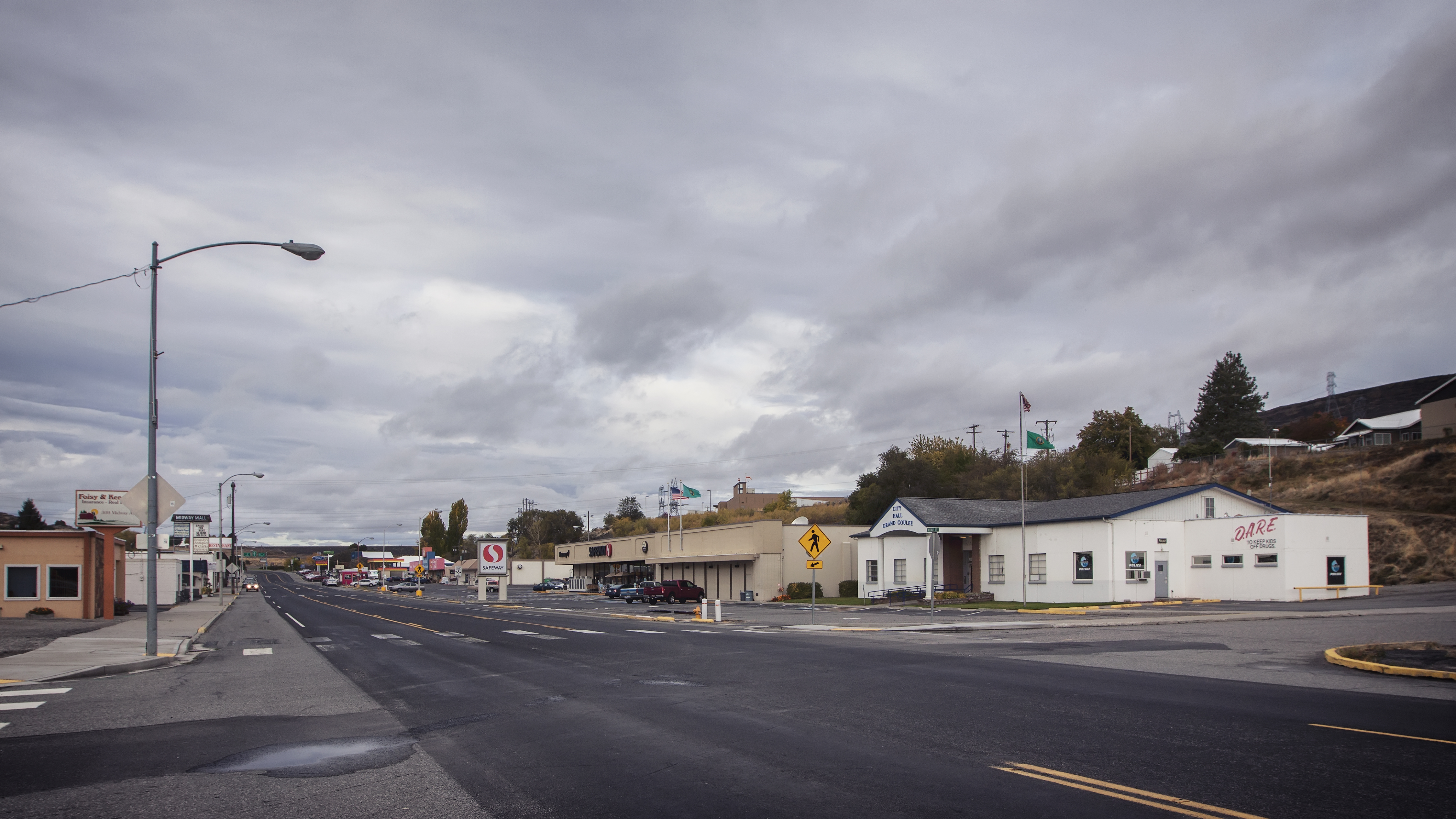 Midway Avenue, Grand Coulee, WA